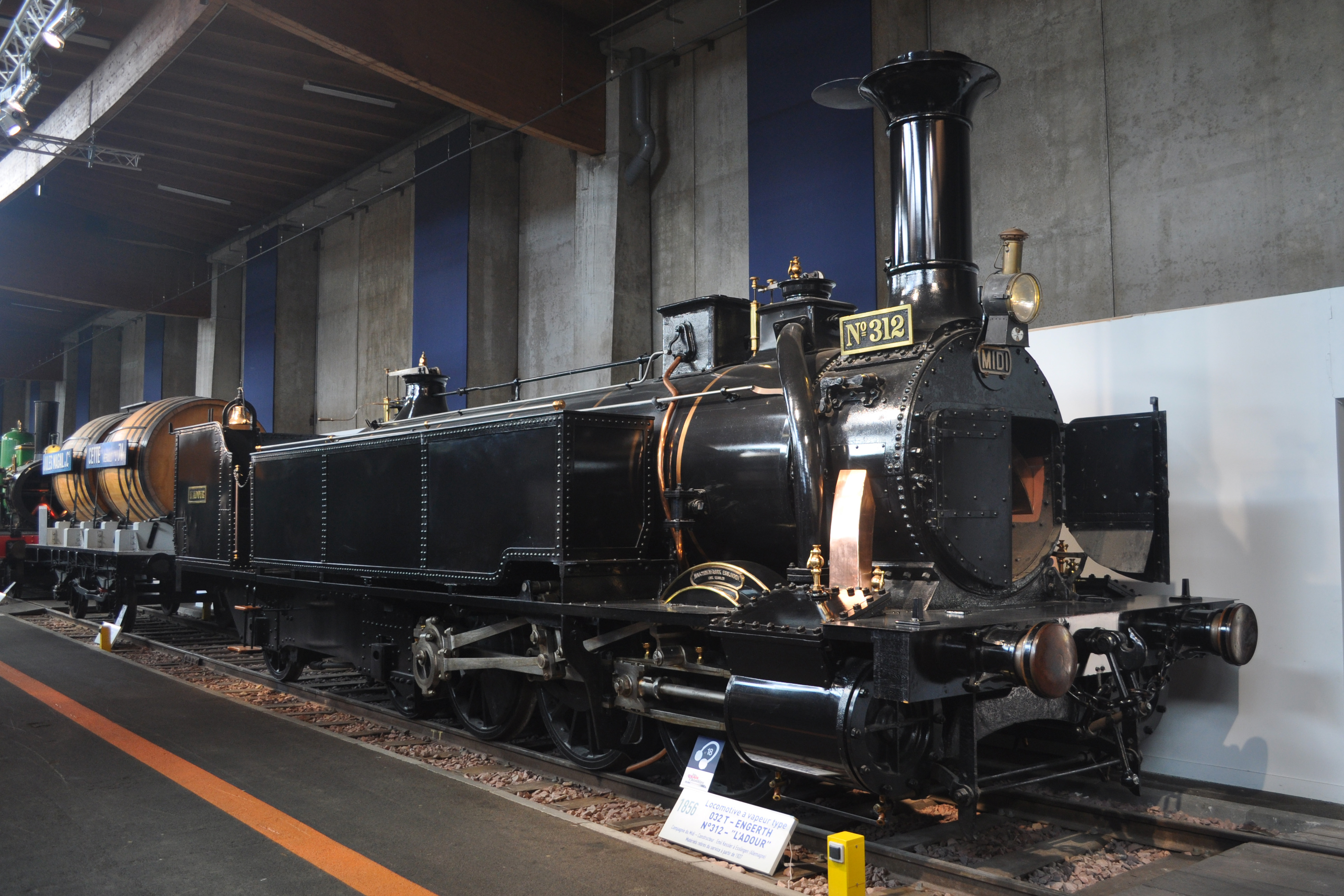 Compagnie des chemins de fer du Midi No.312 l'adour at the Cité du train